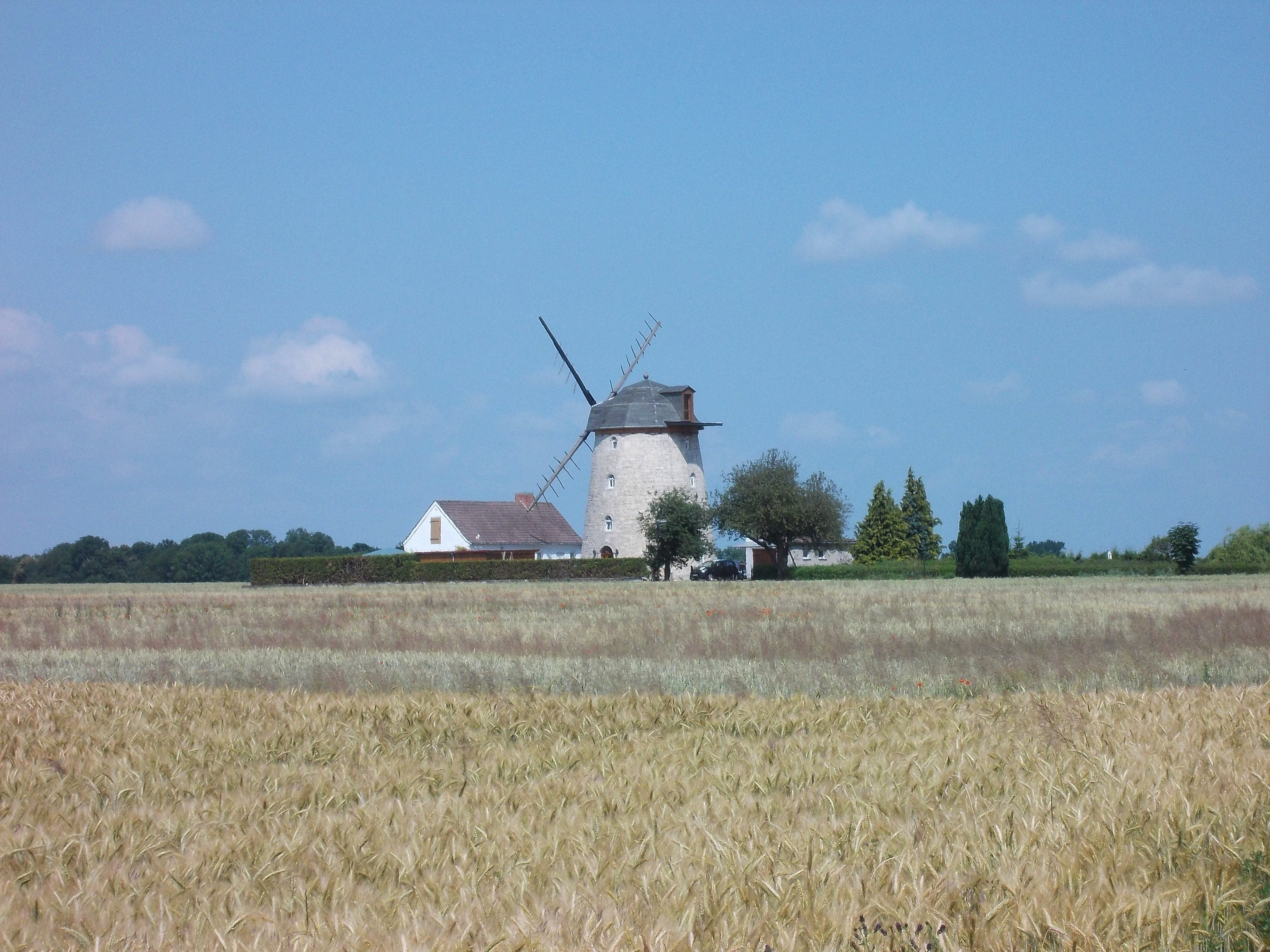 Tower mill in Ebersroda (Gleina, district: Burgenlandkreis, Saxony-Anhalt)